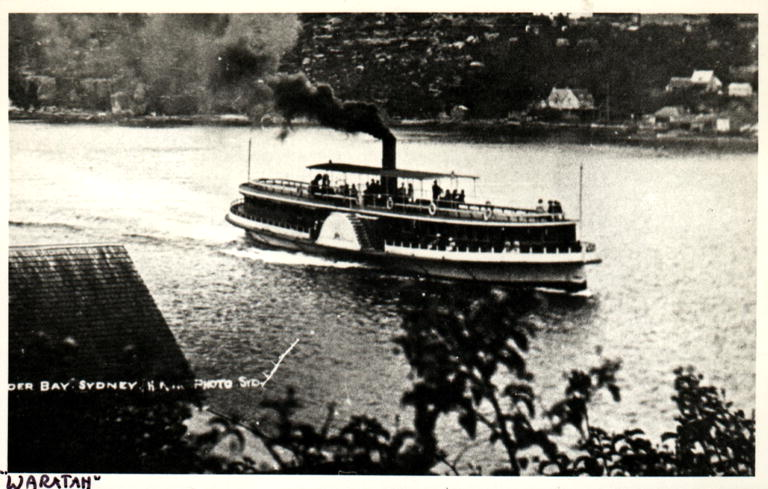 Sydney Ferry WARATAH (II) as built in Lavender Bay c.1886 File 079/079001 DESCRIPTION WARATAH is leaving Lavender Bay. DATE c 1886 FORMAT Digital image only. Many of the images in this collection are available as hi-res jpegs. Please contact the City of Sydney Archives (archives@ .au) on a case by case basis. RECORDSERIES Sydney Reference Collection CITATION Graeme Andrews 'Working Harbour' Collection: 79001 PROVENANCE City of Sydney Archives NOTES S105211